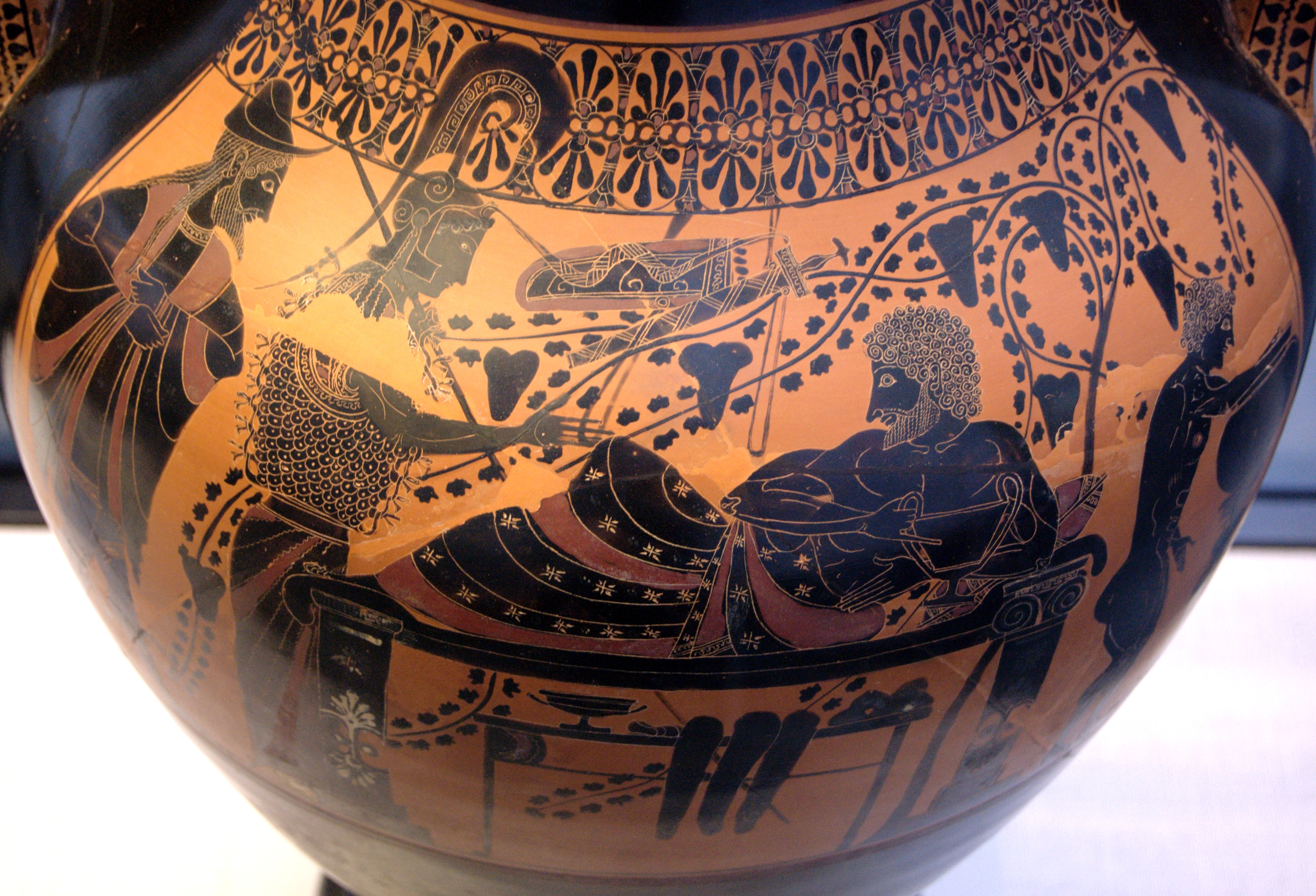 Heracles and Athena. Side B (black-figure) of Attic bilingual amphora, 520–510 BC. From Vulci.